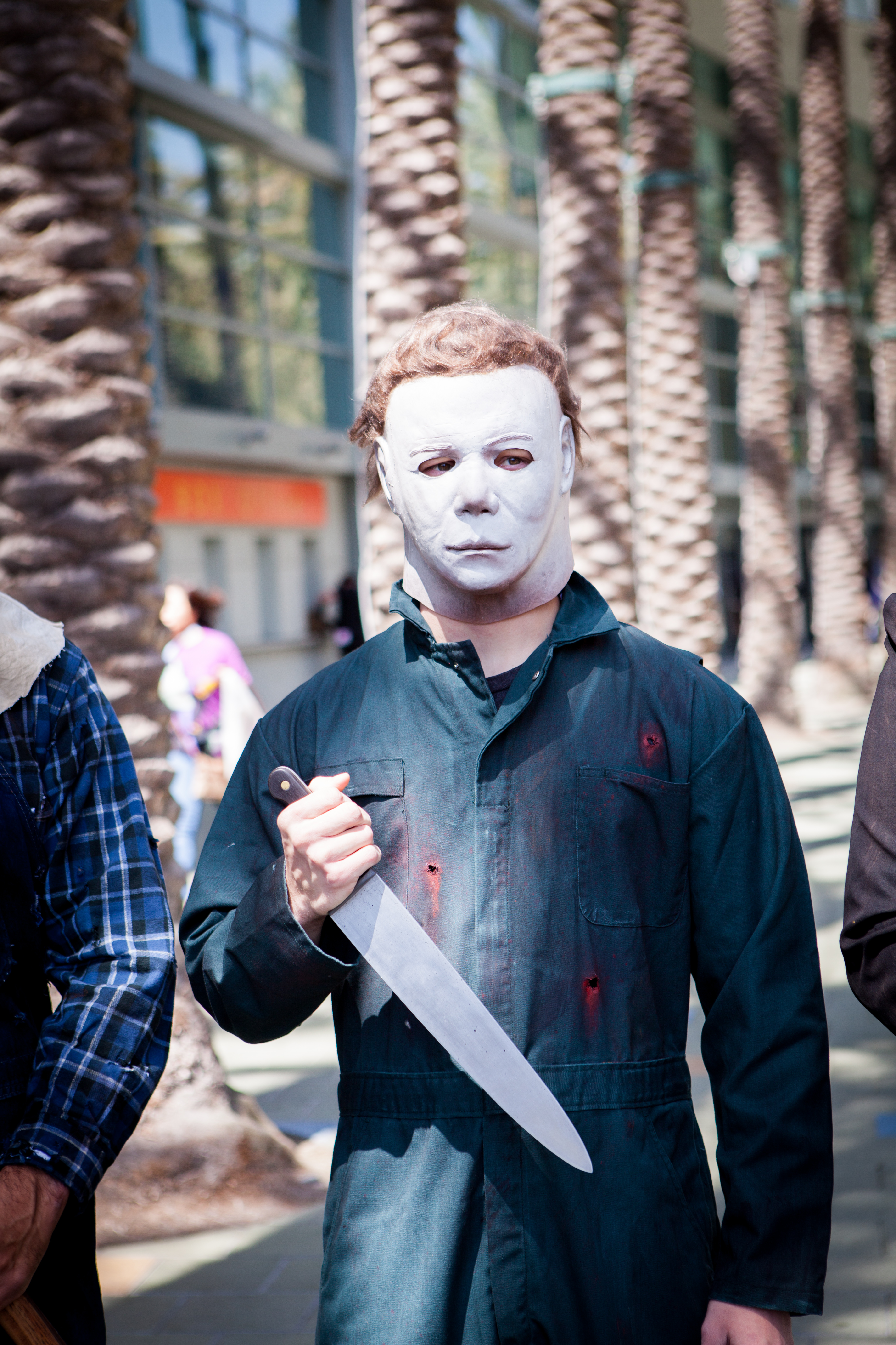 Wondercon 2015-8026